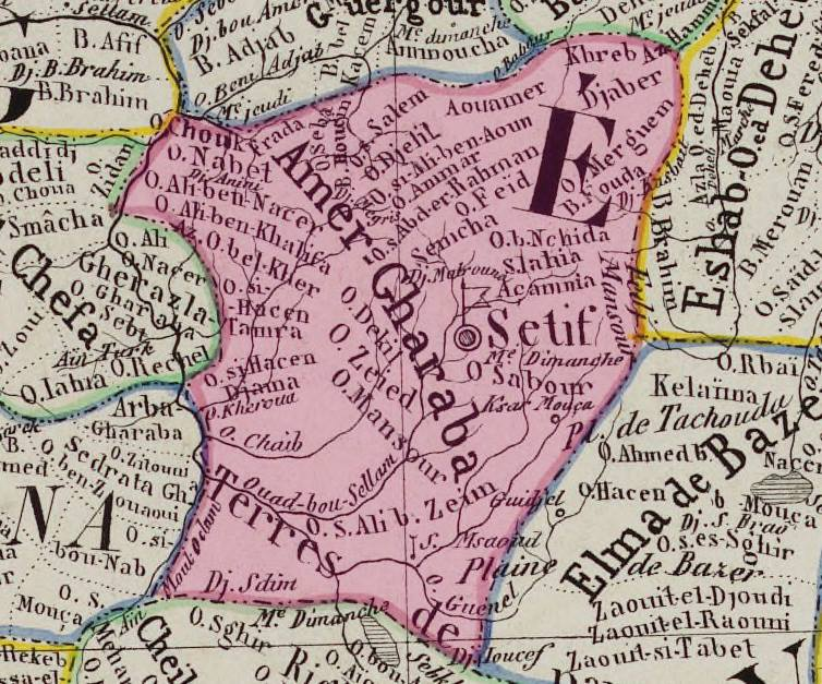 Wilaya of Setif, Algeria